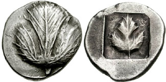 Sicilia, Selinus. Circa 515-470 BC. AR Didrachm (8.53 g). Trilobate selinon leaf Palm-like selinon leaf in incuse square. Arnold-Biucchi Group II, 10; SNG ANS 685.